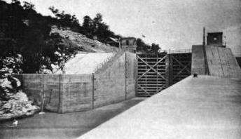 The lock of Hales Bar Dam near Chattanooga, Tennessee, United States.